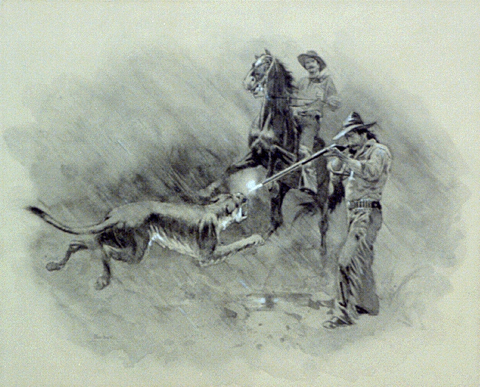 "Will's rifle went off, but without effect". 1 drawing : wash. Published in: "The Rendezvous at East Gorge" by E. Vinton Blake, St. Nicholas, 19:683 (July 1892).